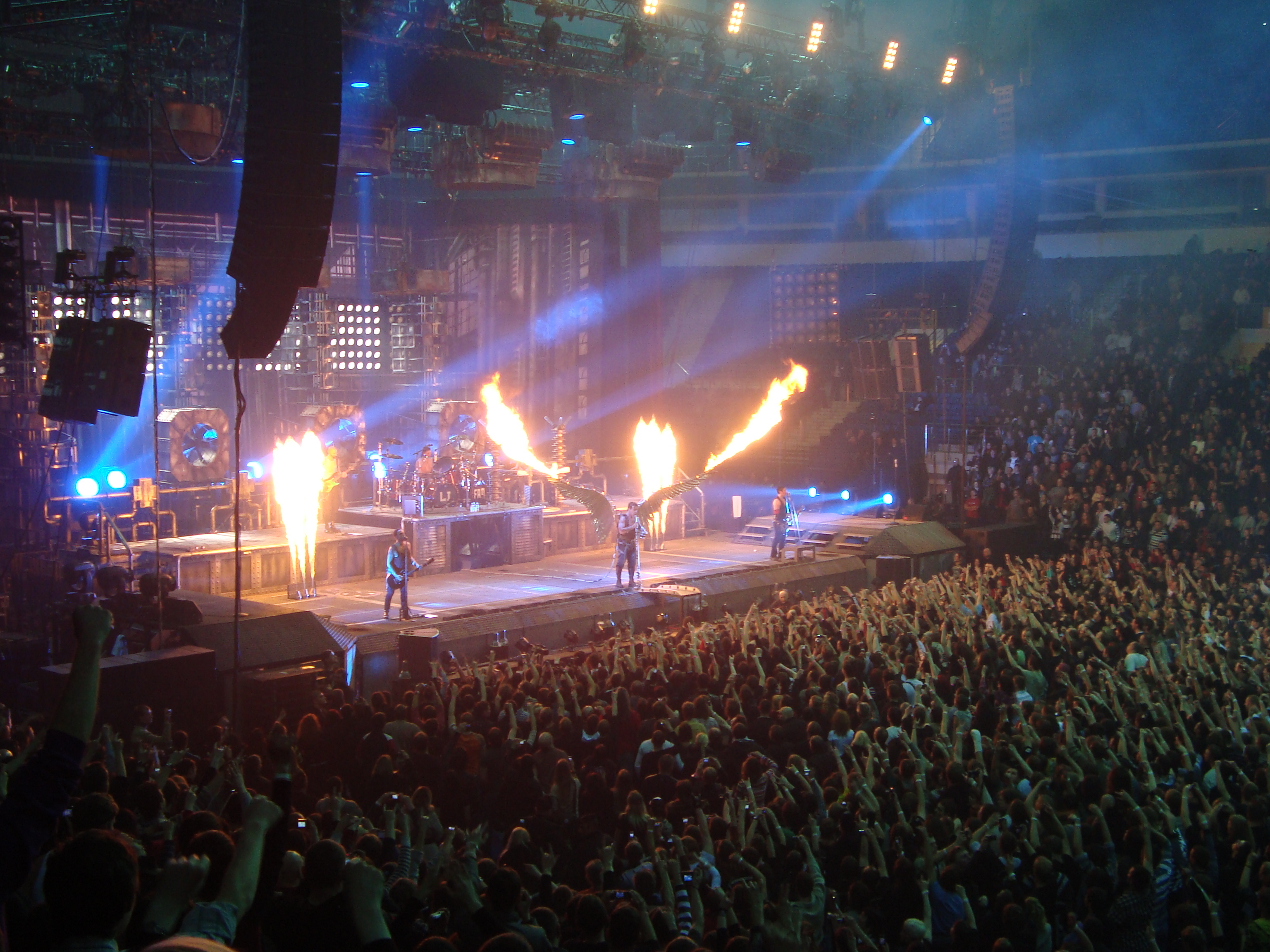 Engel